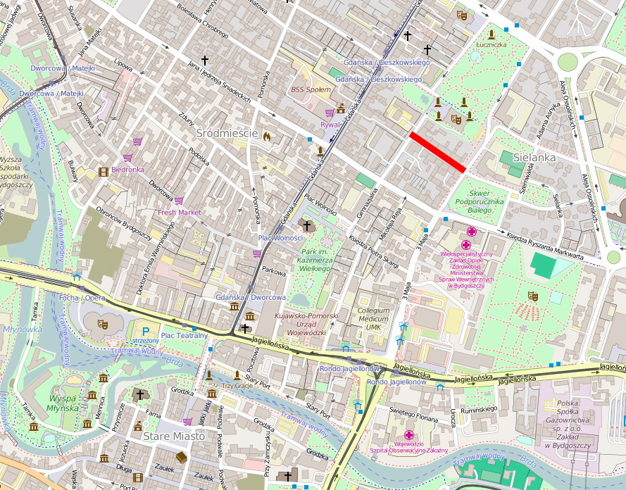 Map of Bydgoszcz